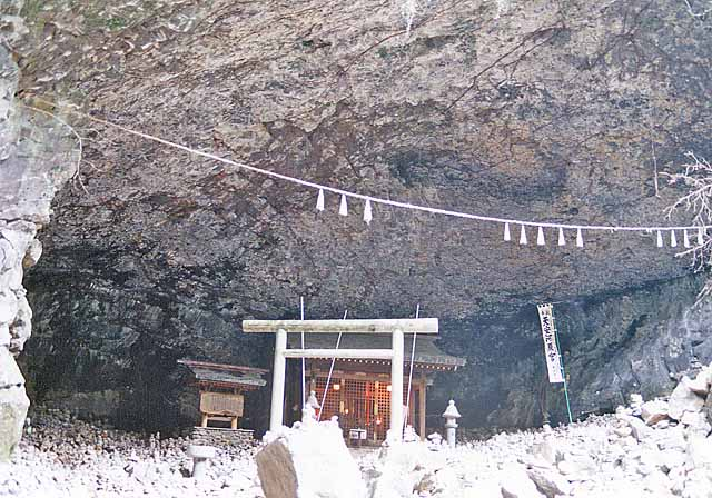 Ama-no-Iwato cave Ame-no-Uzume Amaterasu Shinto Japanese mythology Takachiho, Miyazaki Kyūshū Japan I took this photo in 1995 and contribute it to the public domain. Ama-no-Iwato cave Ame-no-Uzume Amaterasu Shinto Japanese mythology Takachiho, Miyazaki Kyūshū Japan I took this photo in 1995 and contribute it to the public domain.